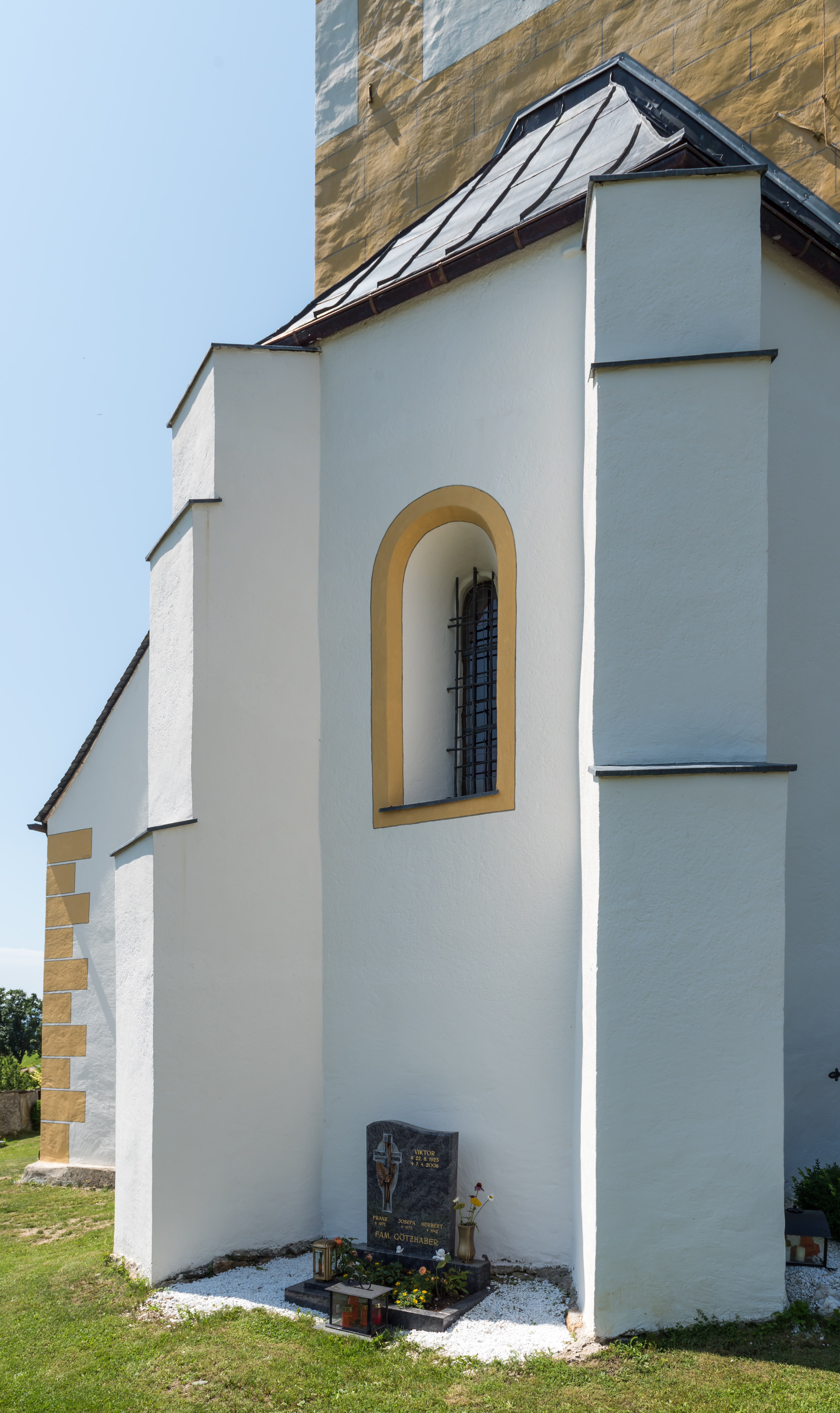 Late Gothic apse of the parish church Saint Peter at Sankt Peter, municipality Sankt Georgen a. L., district Sankt Veit an der Glan, Carinthia, Austria, EU